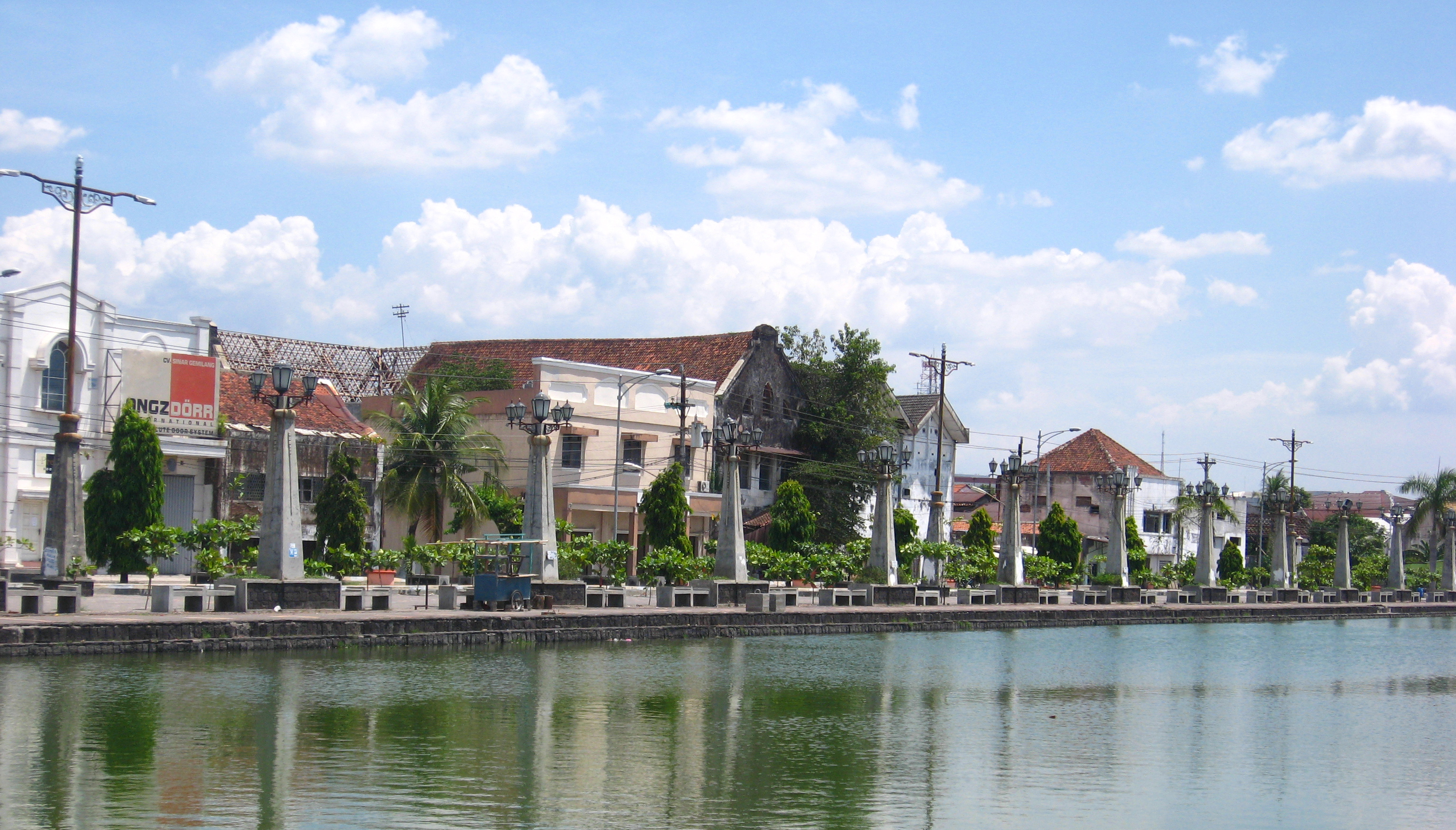 A picture of the train station in Semarang Old Town.